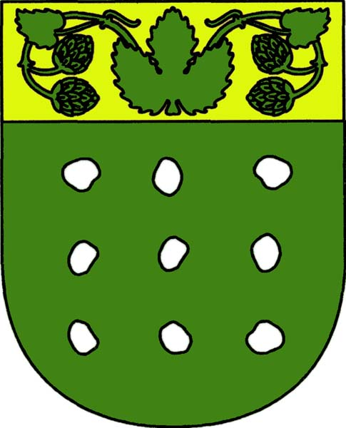 Coat of amrs of Kounov , District Rakovník, Czech Republic